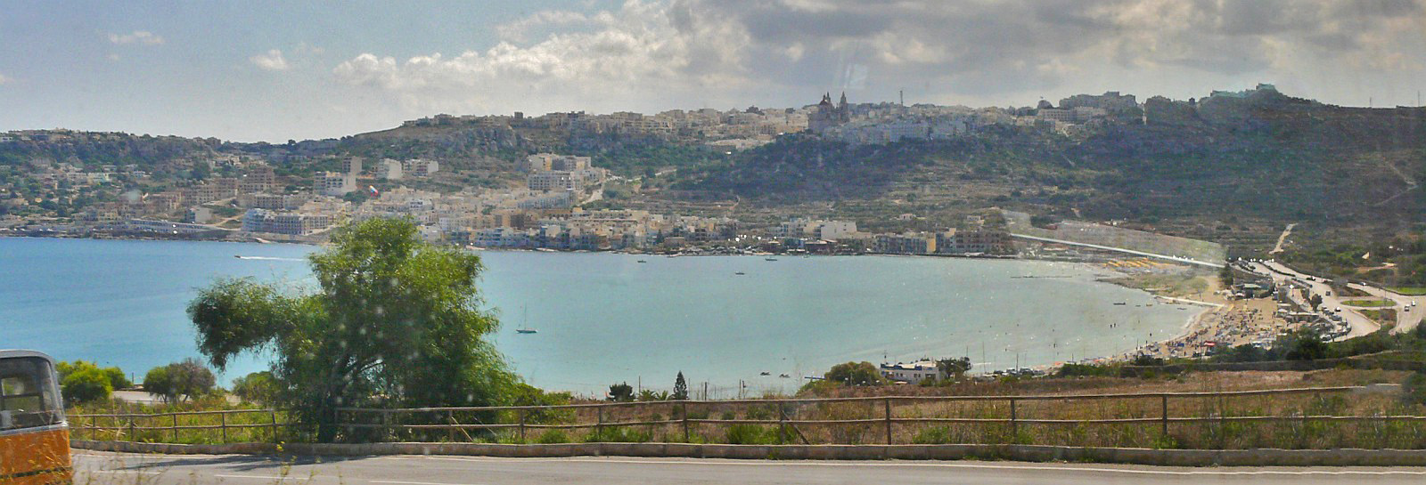 Panorama of Mellieħa and the bay